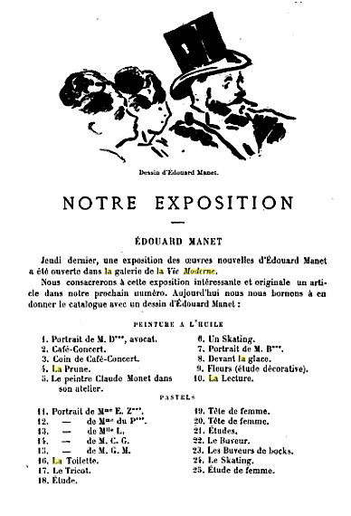 Announcement leaflet for Edouard Manet's Exhibition in Paris at the gallery La Vie moderne, passage des Princes in Paris.